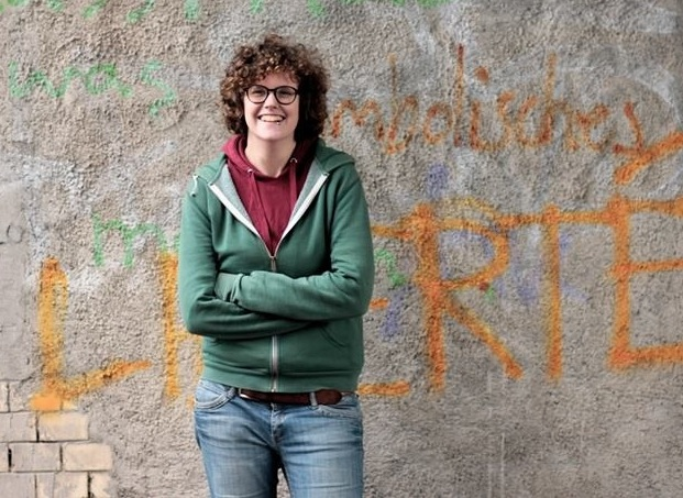 Theresa Kalmer